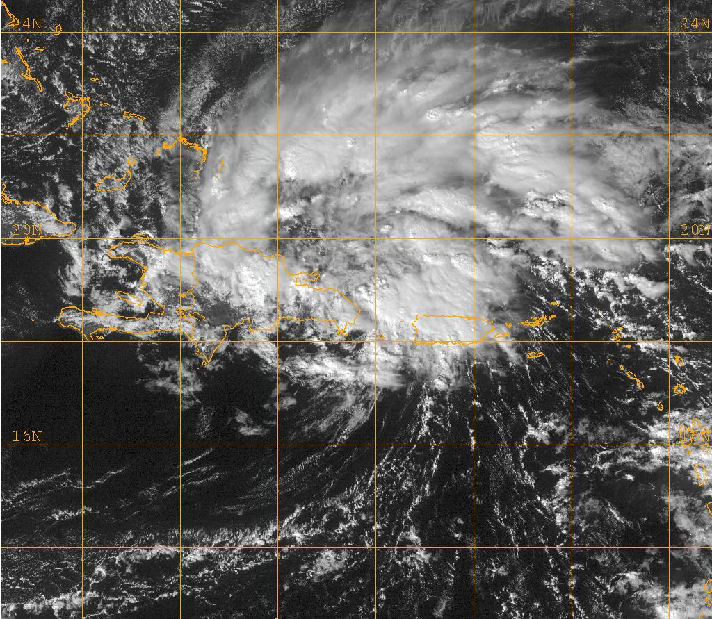 Satellite Image of Subtropical Storm Olga on December 11 near the Dominican Republic